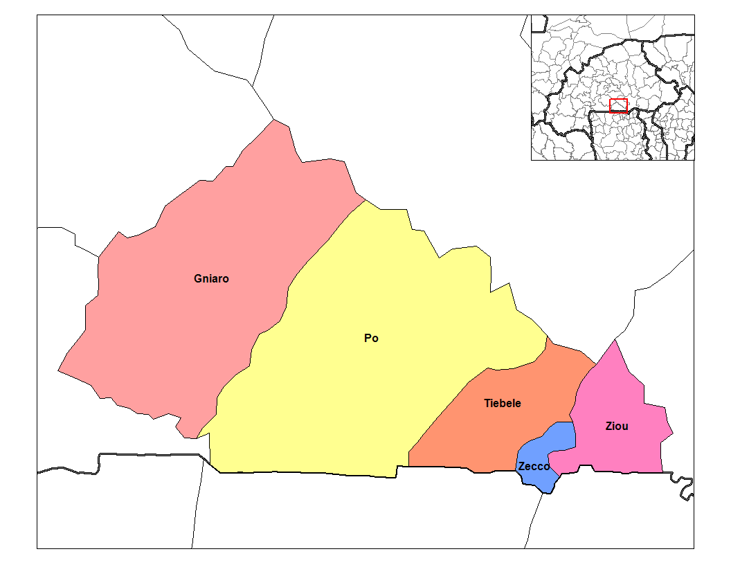 This map has been uploaded by Osiris fancy from to enable the Wikimedia Atlas of the World. Original uploader to was Rarelibra. Osiris fancy is not the creator of this map. Licensing information is below. Map of the departments of Nahouri province in Burkina Faso. Created by Rarelibra 03:29, 30 September 2006 (UTC) for public domain use, using MapInfo Professional v8.5 and various mapping resources.